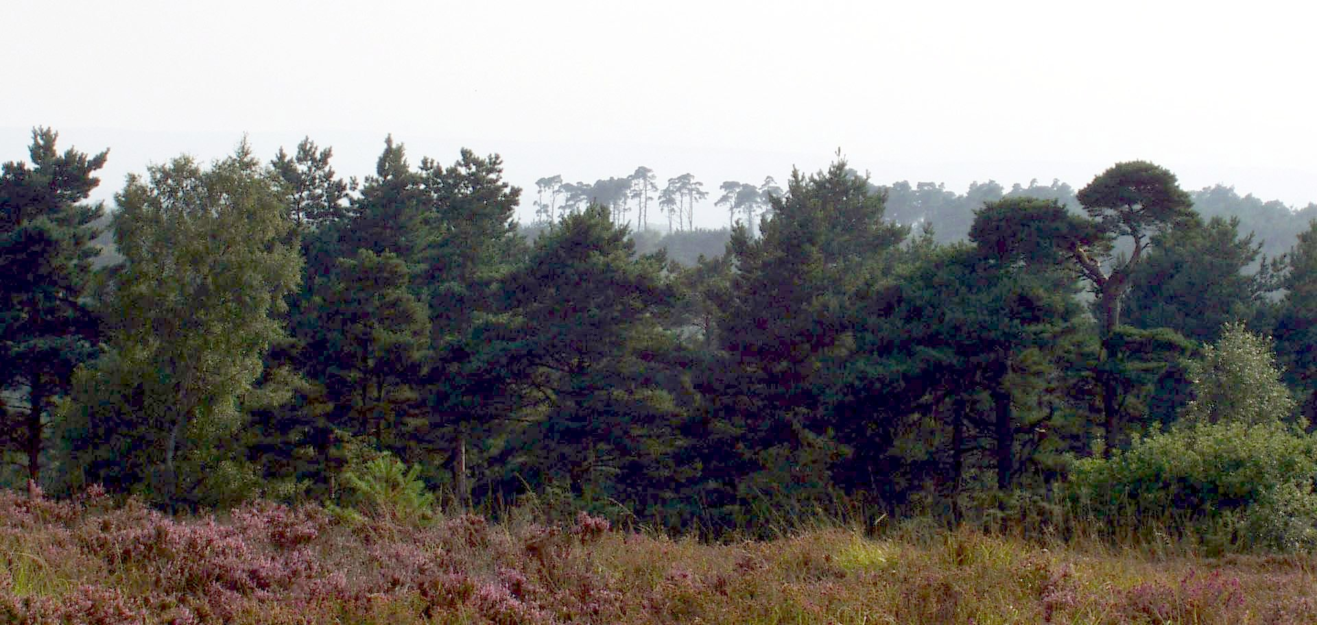 Ashdown Forest